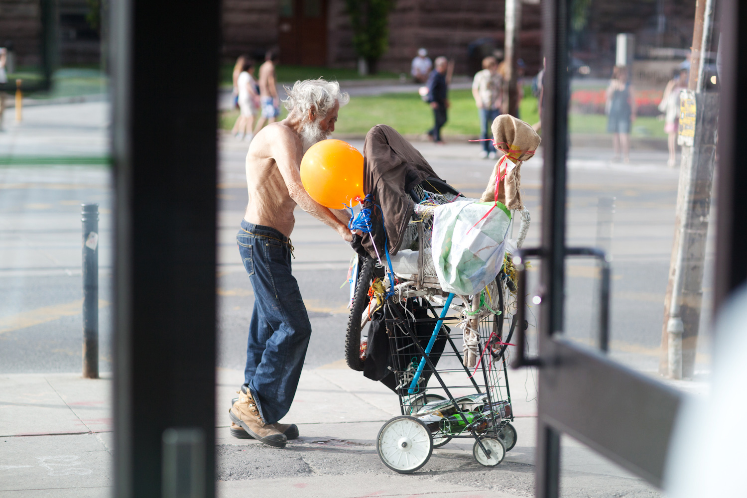 Canada Day 2011, a homeless man walks with his shirt off, on Queen Street West, across from Old City Hall, Toronto.